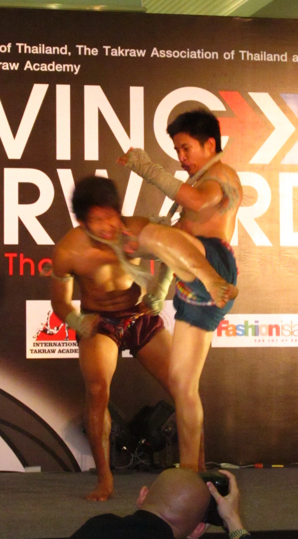 Muay Thai Boran 2